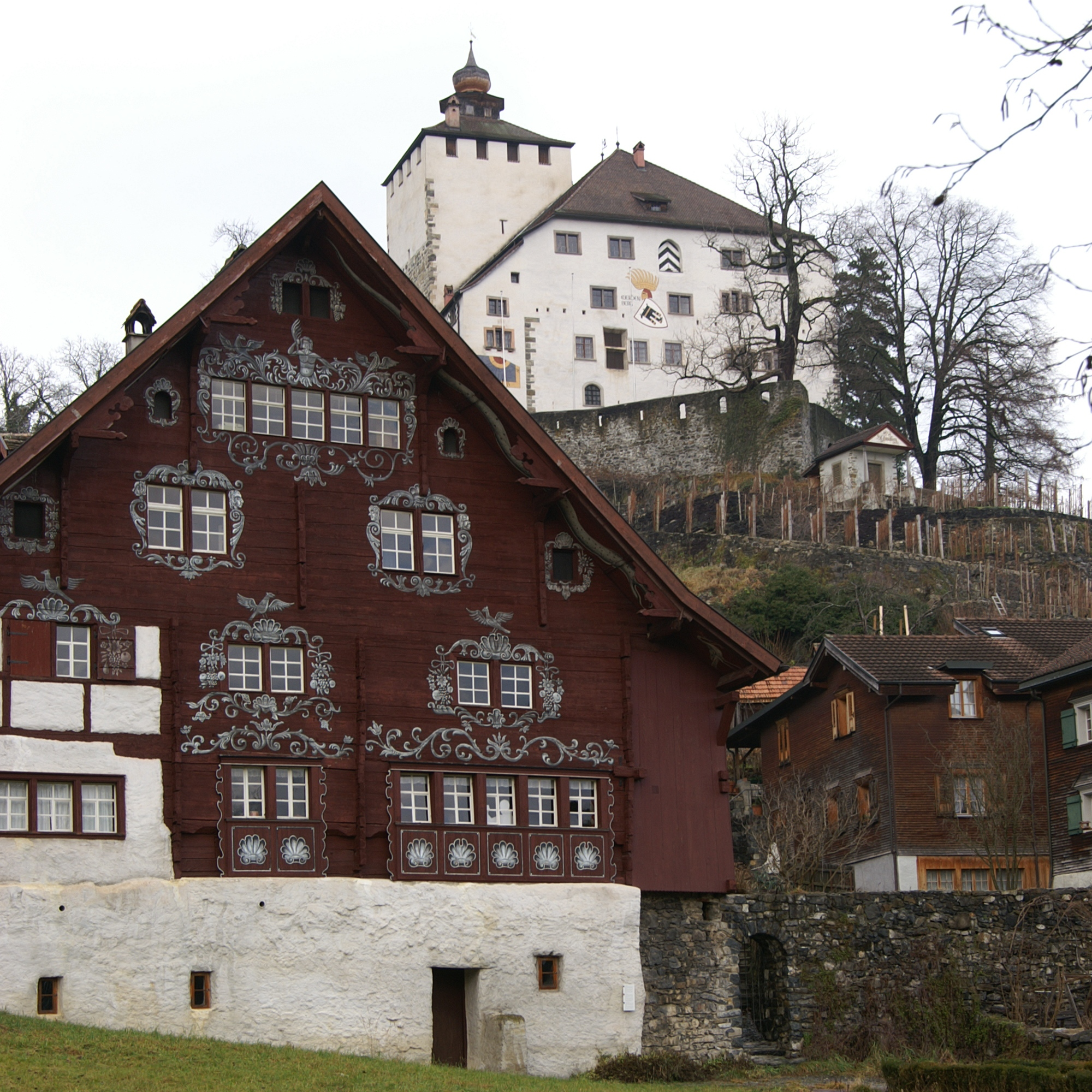 Old City of Werdenberg in Grabs, St. Gallen, Switzerland. This picture shows the house at Städtli 14.